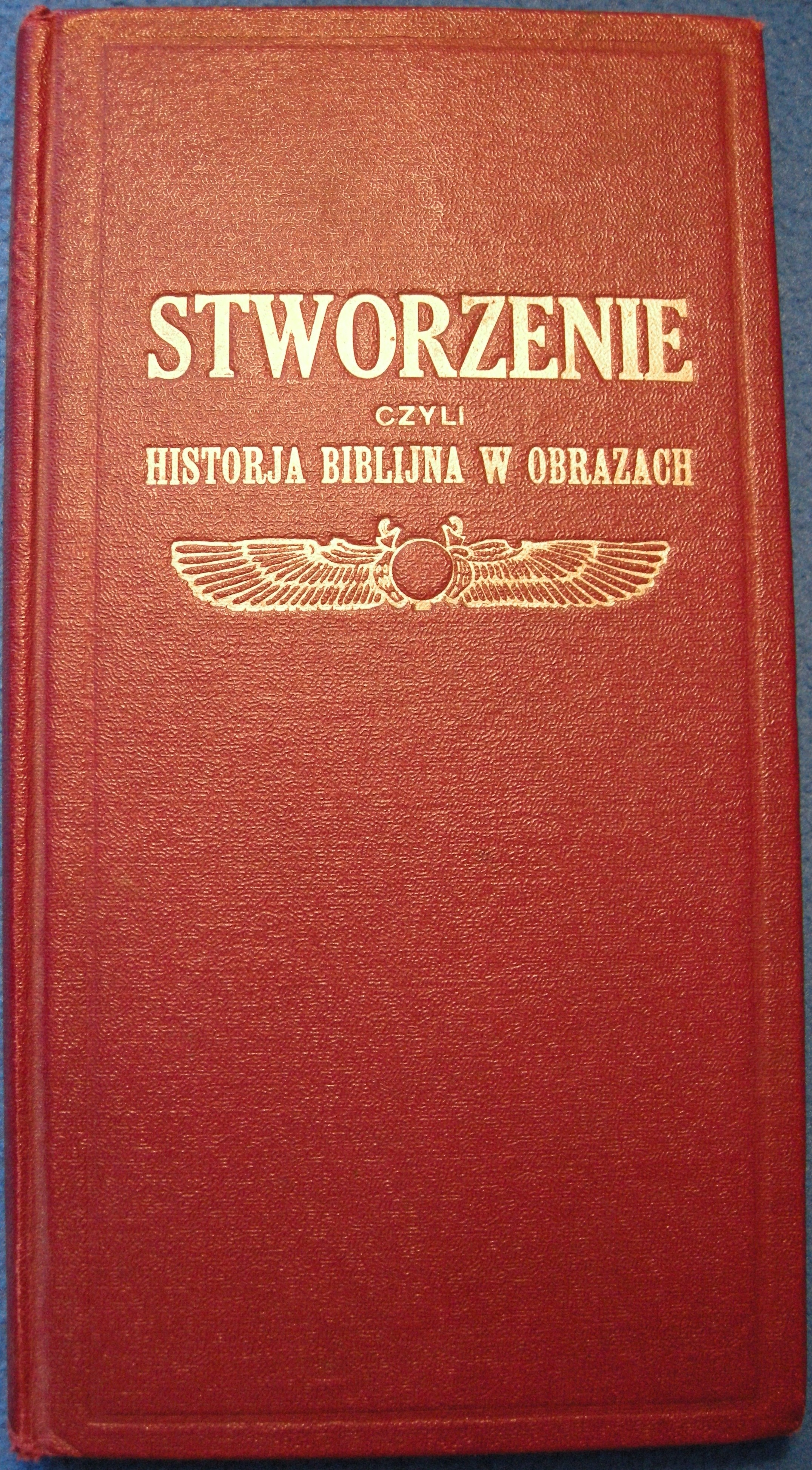 Photo-Drama of Creation